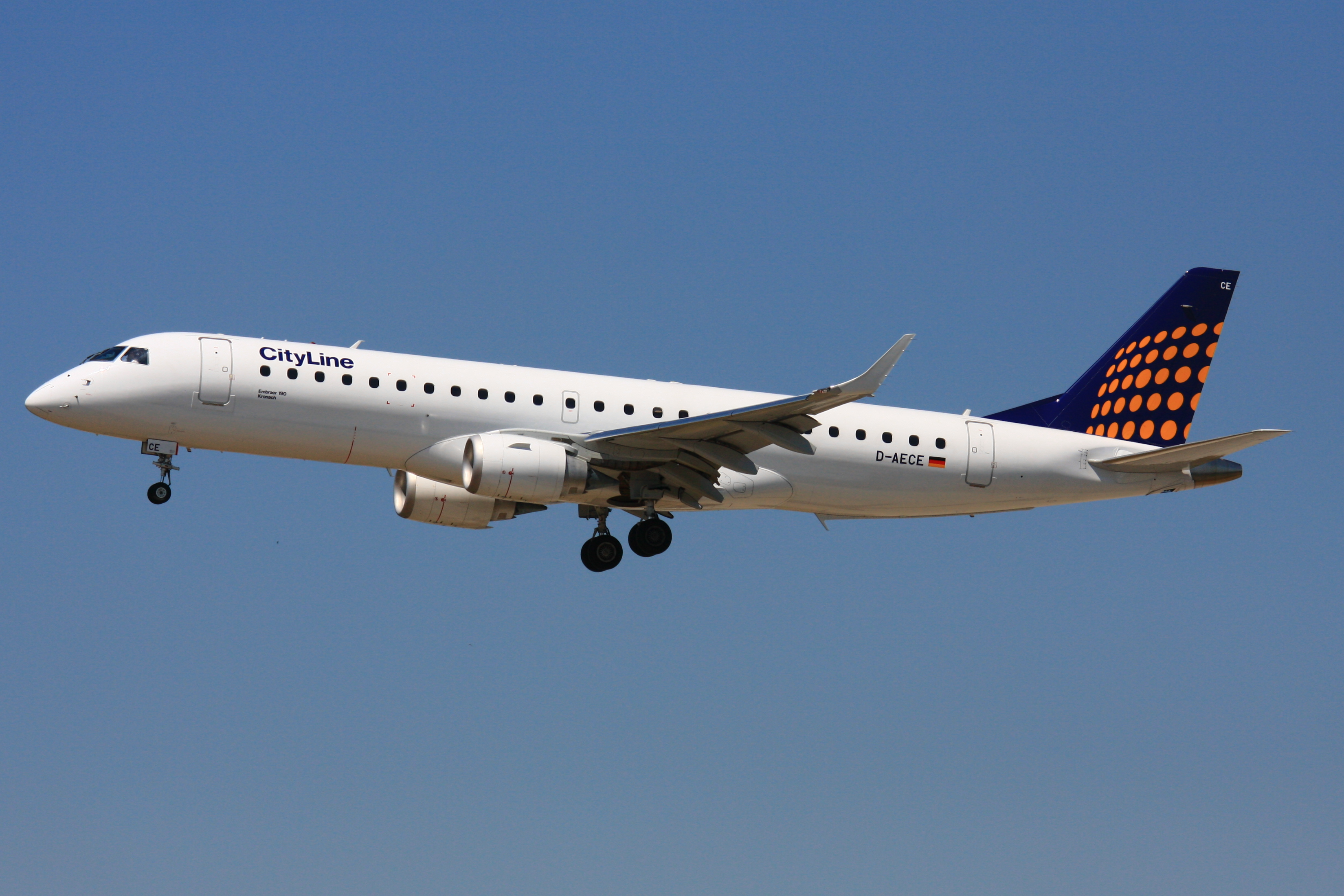 An Embraer 190 of Lufthansa CityLine landing at Frankfurt Airport